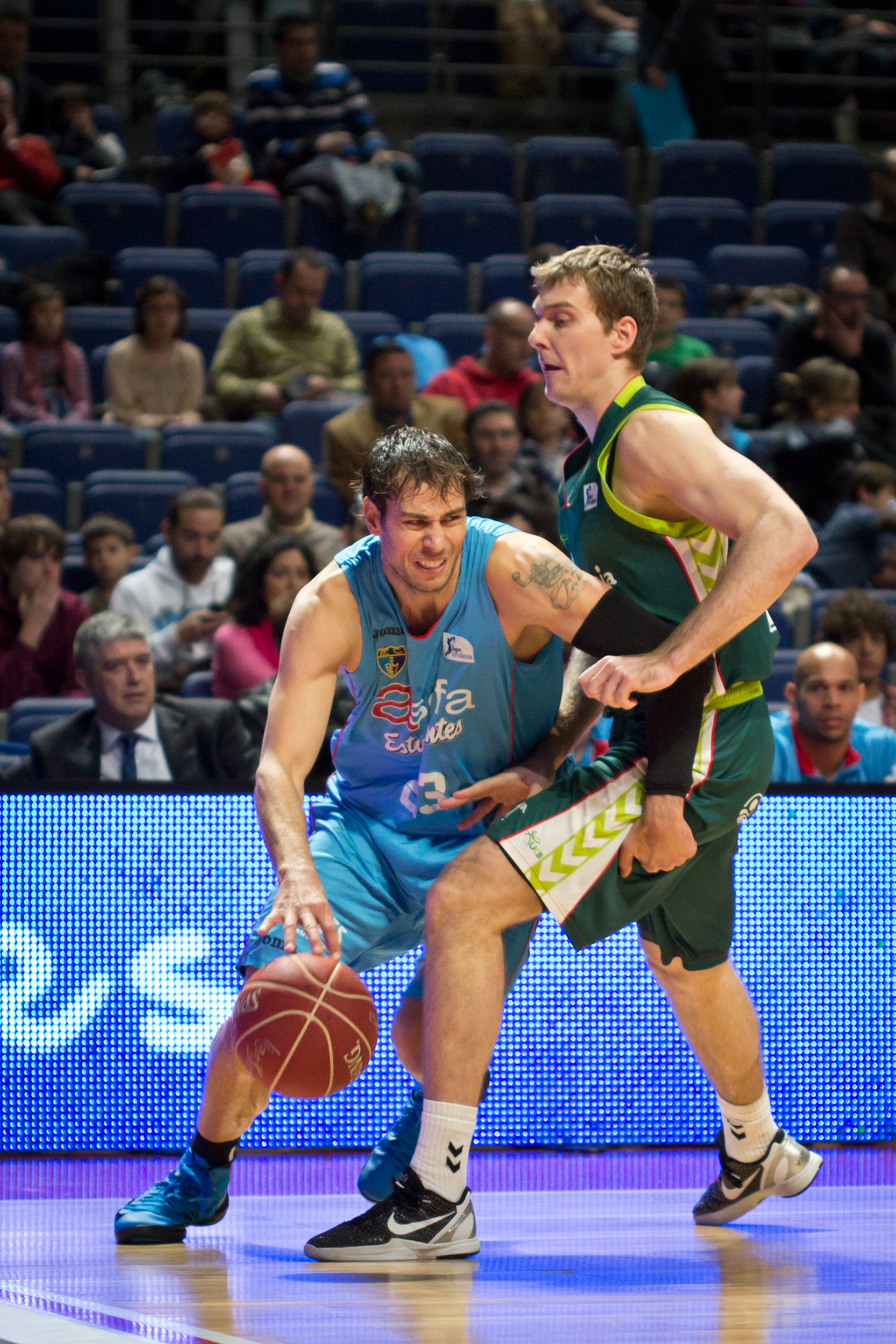 Carl English and Zoran Dragić. Game Estudiantes vs Unicaja Málaga. Broadcasting of the match in Televisión Española (in Spanish), min. 6:20